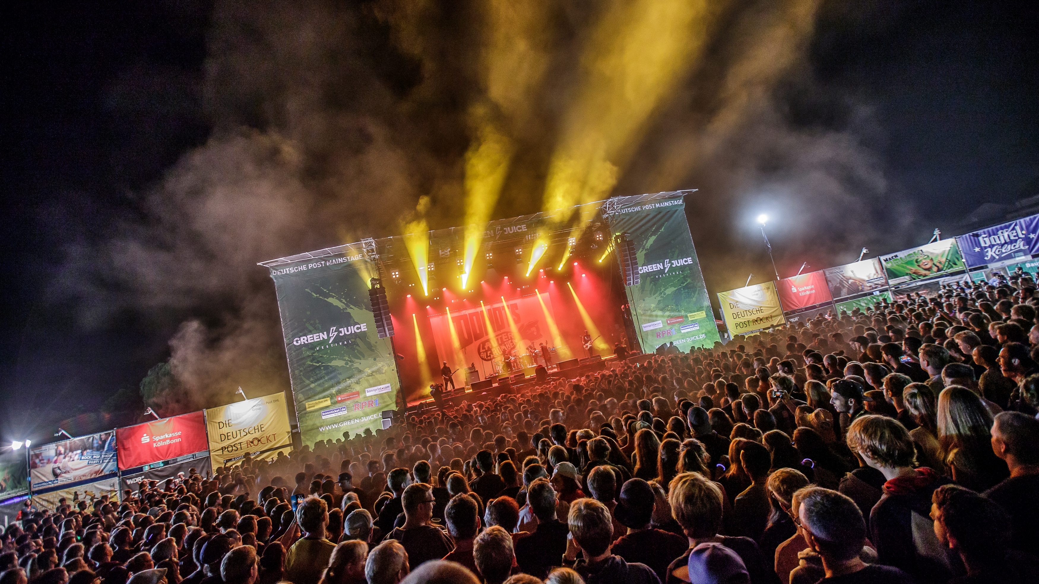 Hauptbühne auf dem Green Juice Festival 2018 Foto: Rainer Keuenhof